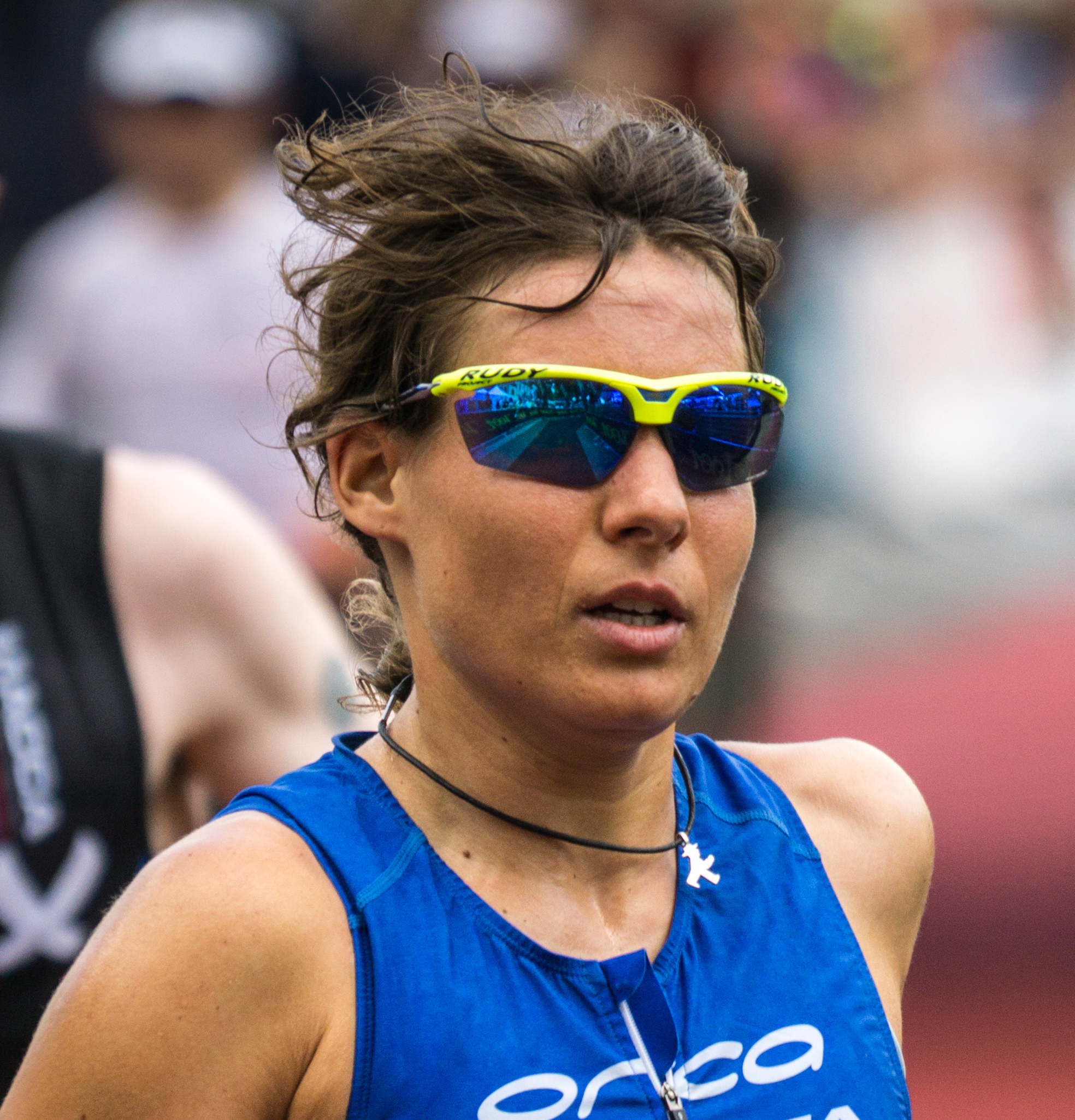 Jenny Schulz at the 2014 Ironman European Championship in Frankfurt am Main (Germany).